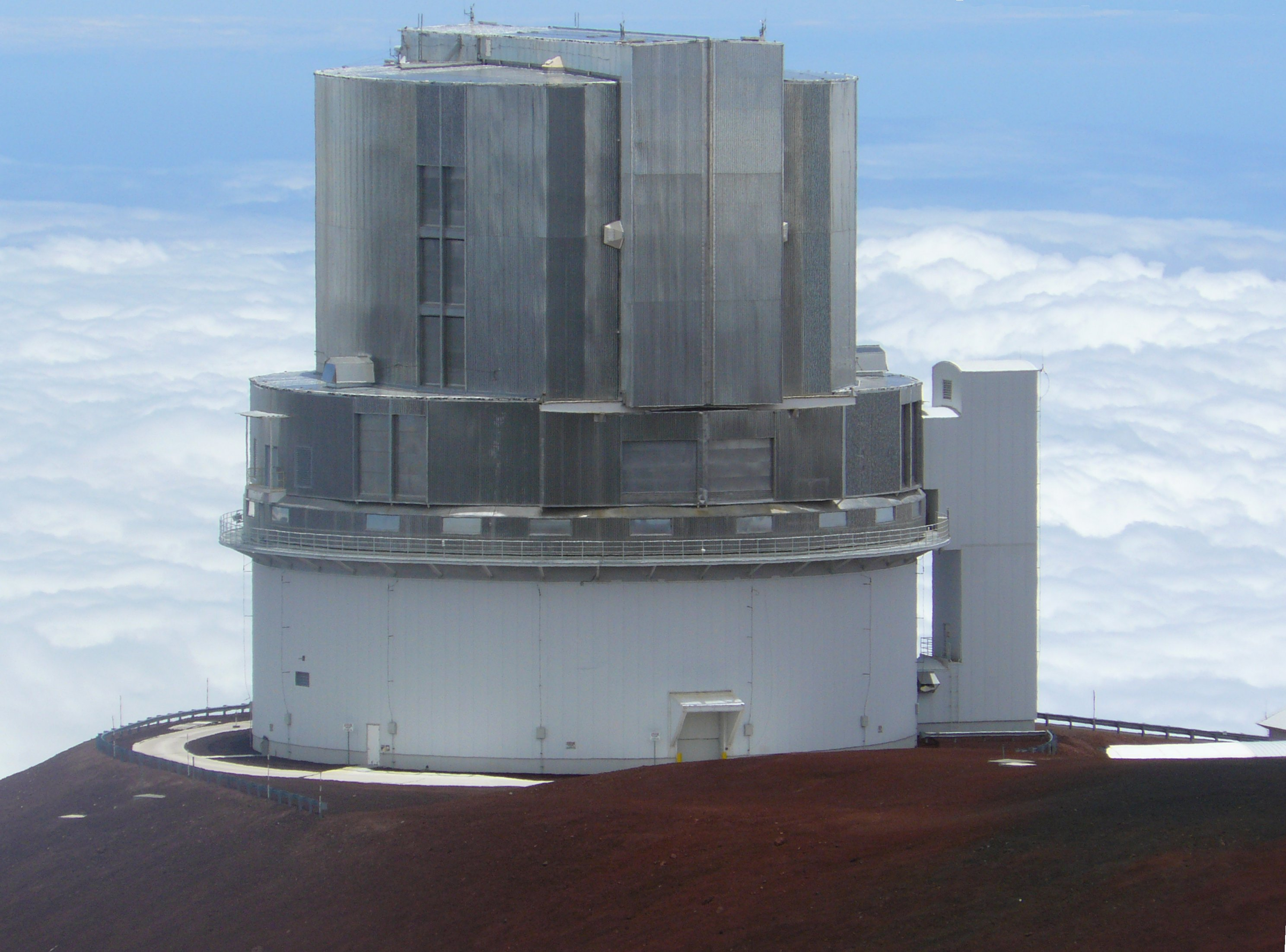 The Subaru Telescope on Mauna Kea, Hawai'i. Good Design Award 2000.